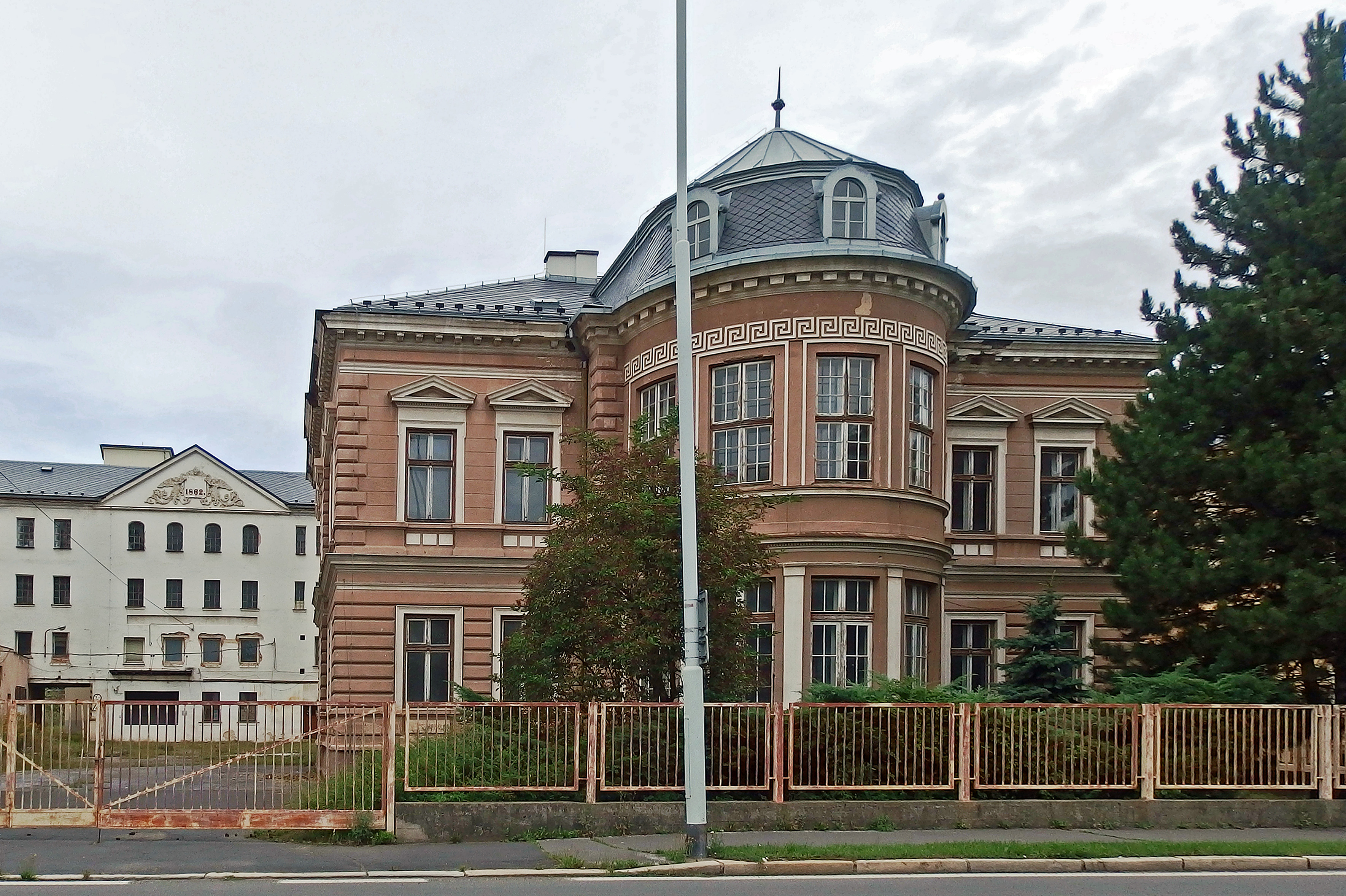 Krnov, Bruntál District, Czech Republic.